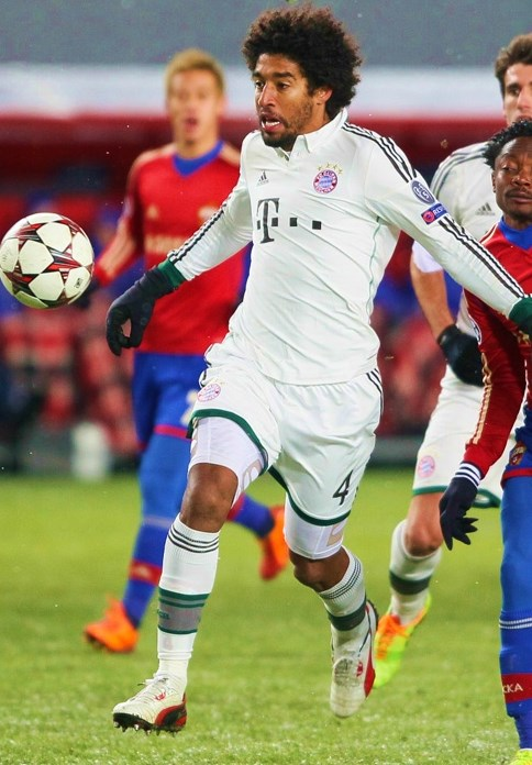 Dante Bonfim Costa Santos